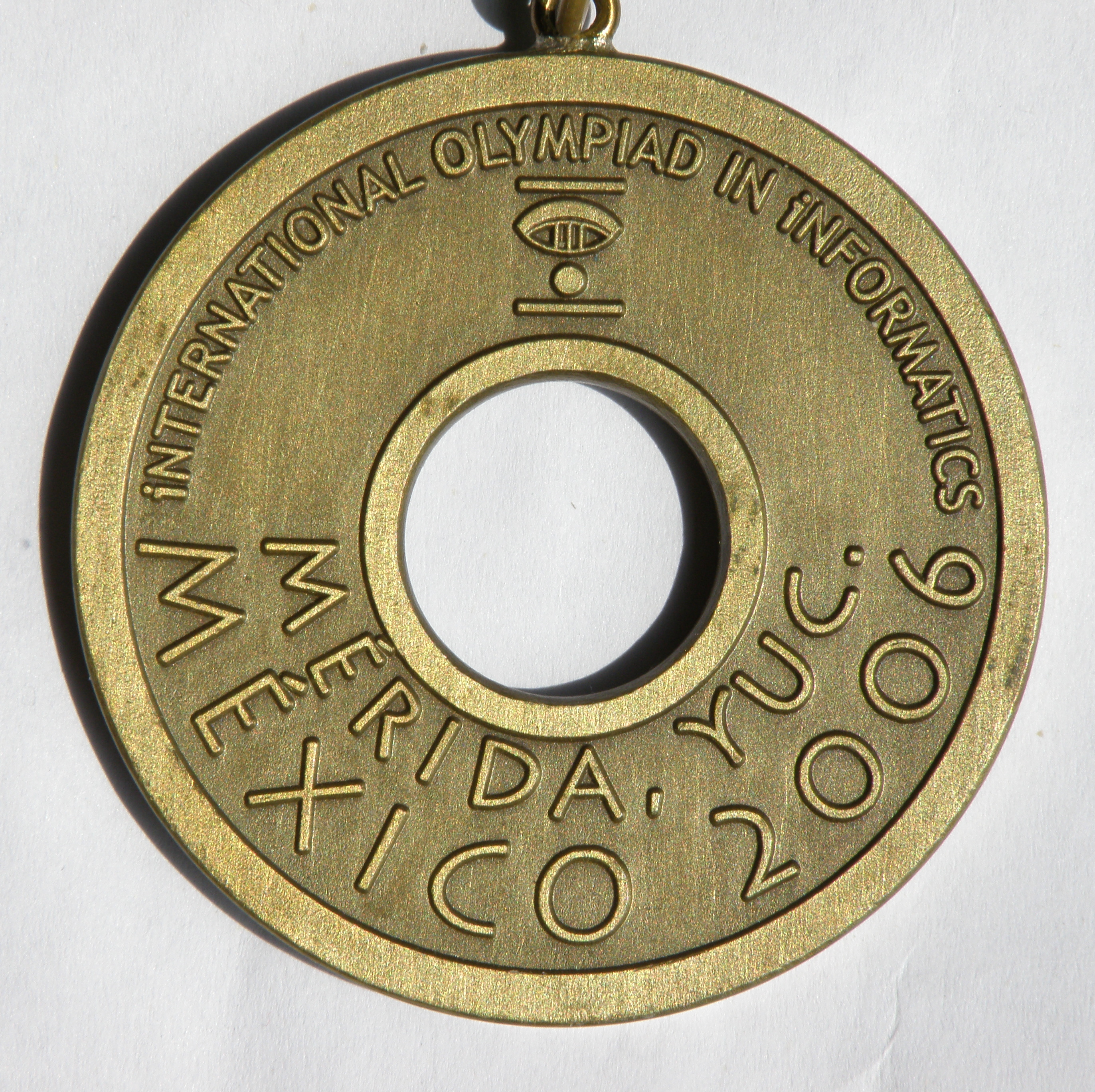 Bronze medal at the International Olympiad in Informatics 2006.